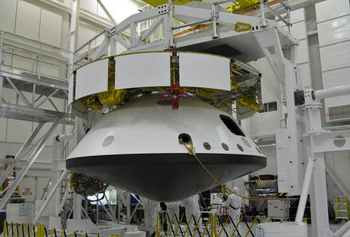 The major components of NASA's Mars Science Laboratory spacecraft—cruise stage atop the aeroshell, which has the descent stage and rover inside—were connected together in October 2008 for several weeks of system testing, including simulation of launch vibrations and deep-space environmental conditions. These components will be taken apart again, for further work on each of them, after the environmental testing. The Mars Science Laboratory spacecraft is being assembled and tested for launch in 2011.